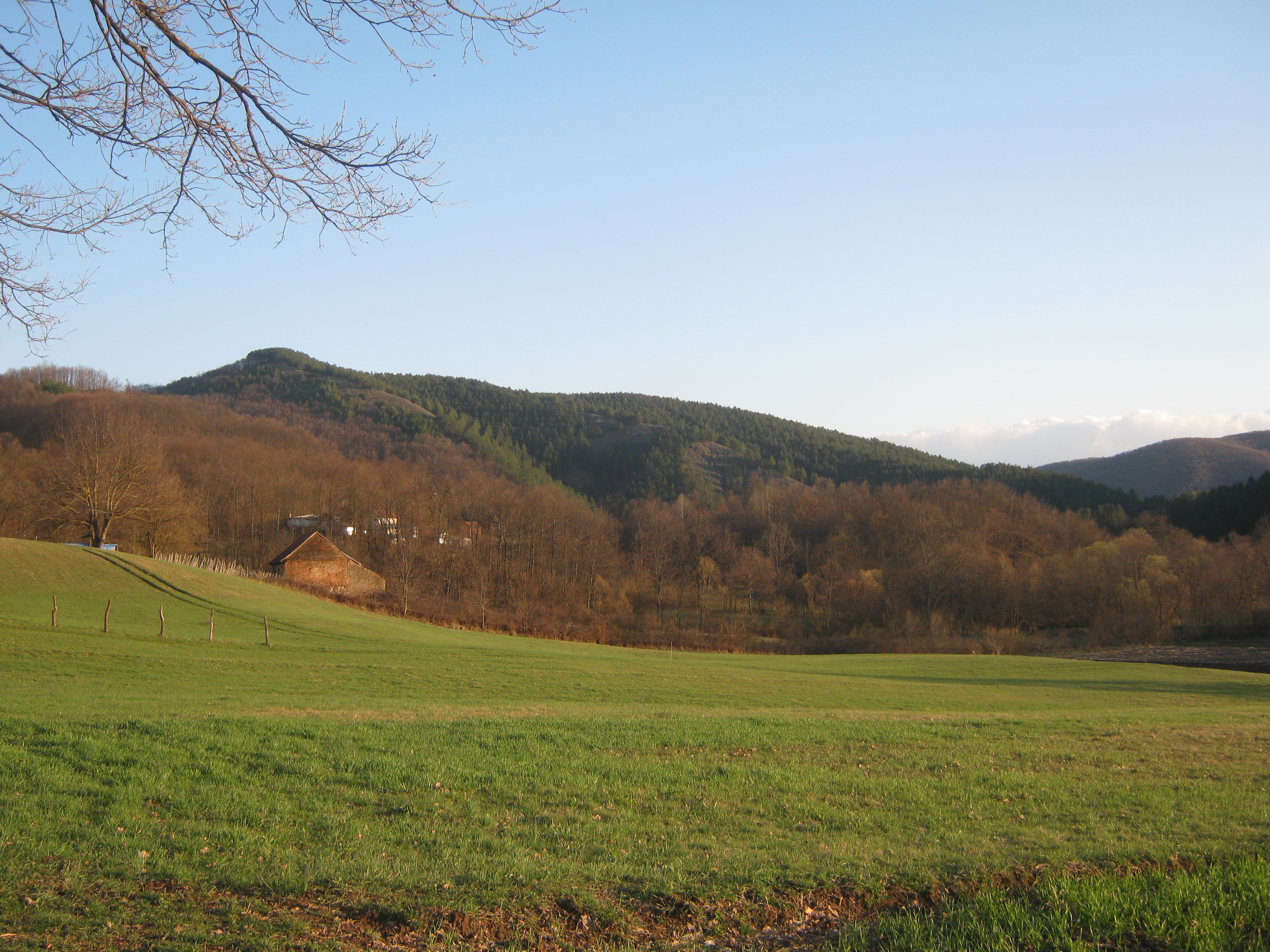 North side of Krvavac.